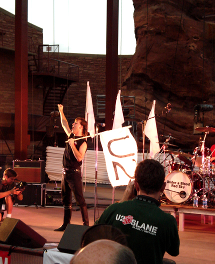 The U2 tribute act "Under a Blood Red Sky" plays a replica performance of U2's June 5, 1983 show at Red Rocks Amphitheatre August 21, 2007